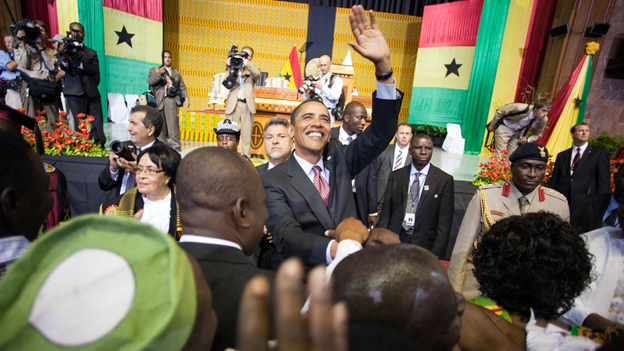 President Barack Obama after speaking to the Parliament of Ghana in Accra.